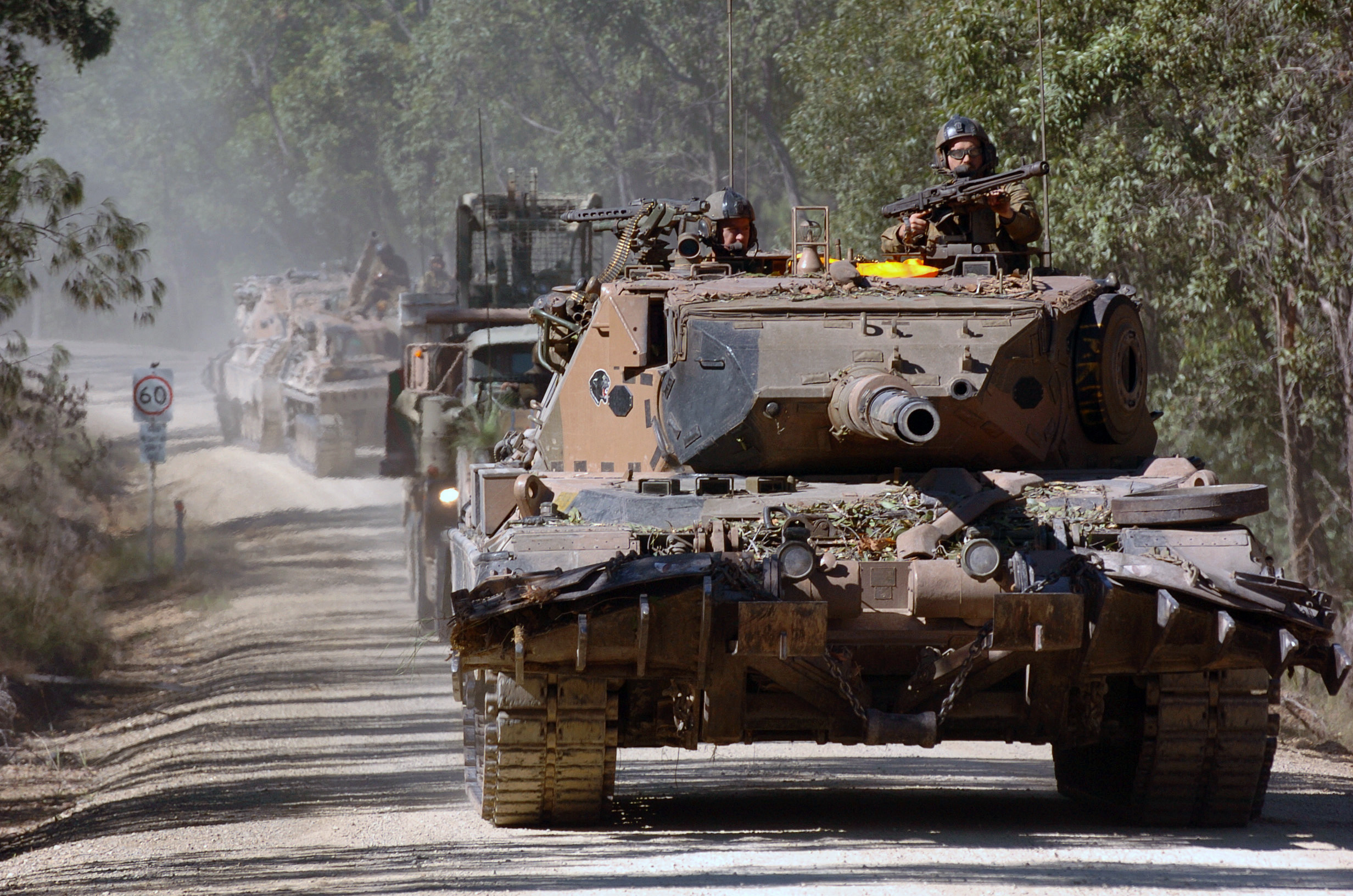 A German designed Leopard AS1 Gun Tank from the 1st Armored Regiment (1ARMD) participates in a simulated battle during the Talisman Saber 2005 exercise at the Shoalwater Bay Training Area, Queensland, Australia Camera Operator: PH2 BRANDON A. TEEPLES, United States Navy Date Shot: June 25, en:2005